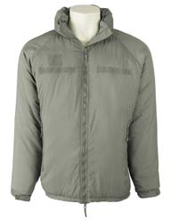 ECWCS III level 7 jacket